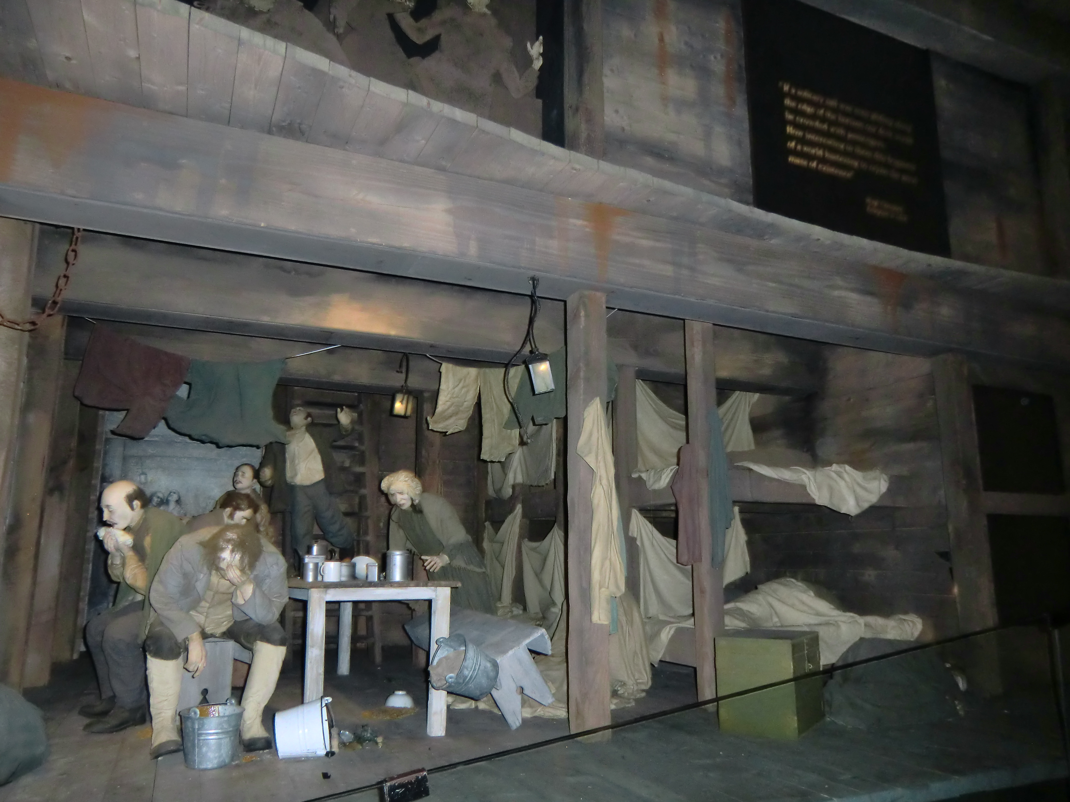 Cobh Heritage Centre, reconstruction of the interior of an old ship